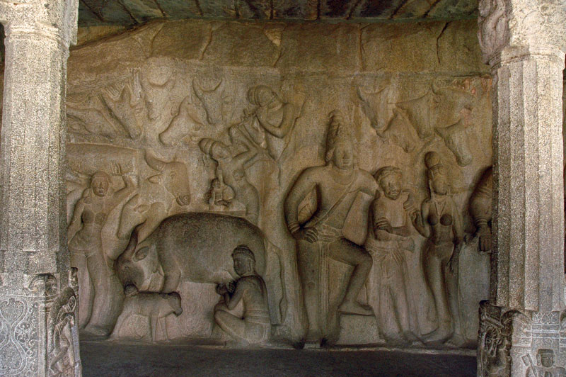 Relief of Krishna. Mahabalipuram, India